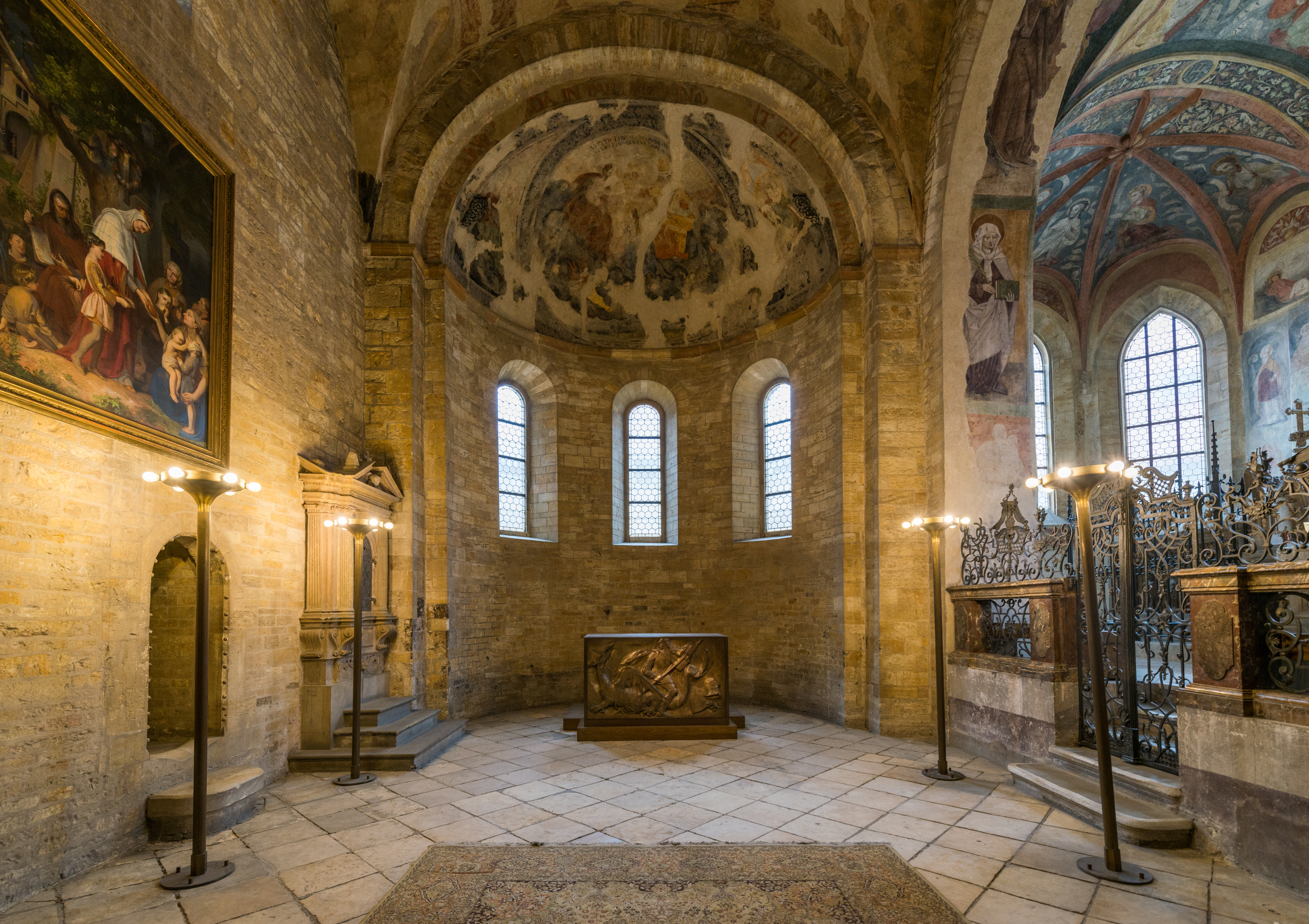 A view of the Apse of St. George's Basilica, Prague